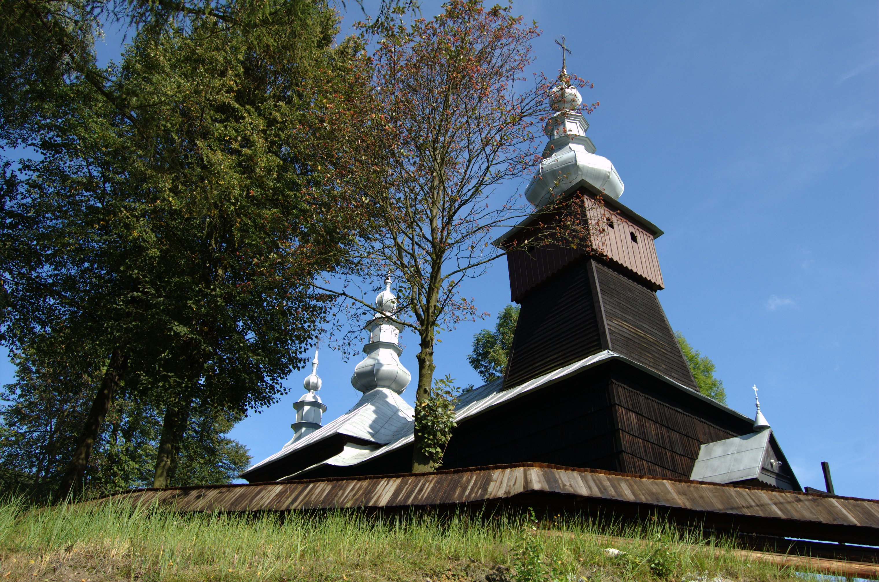 Church in Jastrzębik